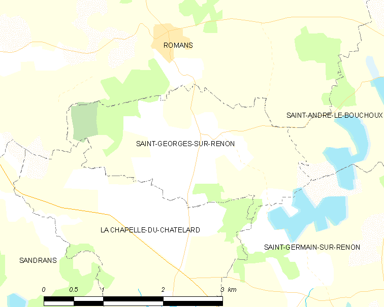 Map of French commune: Saint-Georges-sur-Renon Map commune FR insee code 01356.png